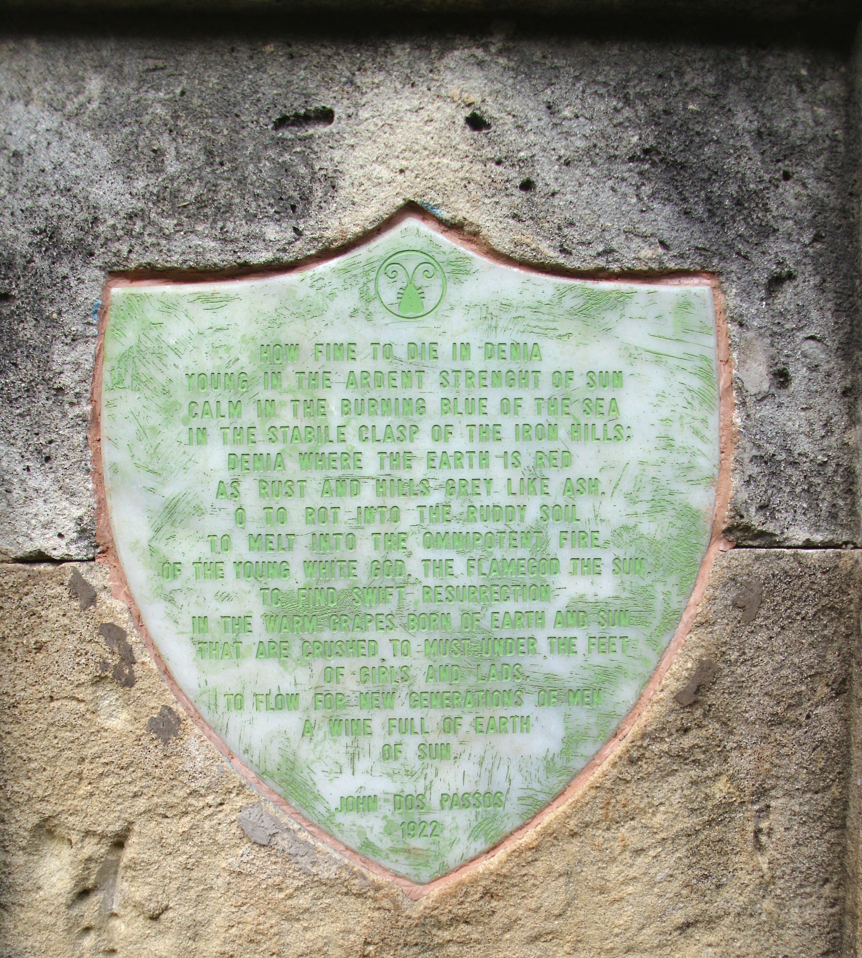 Posie from John Dos Passos, Denia - Espania.